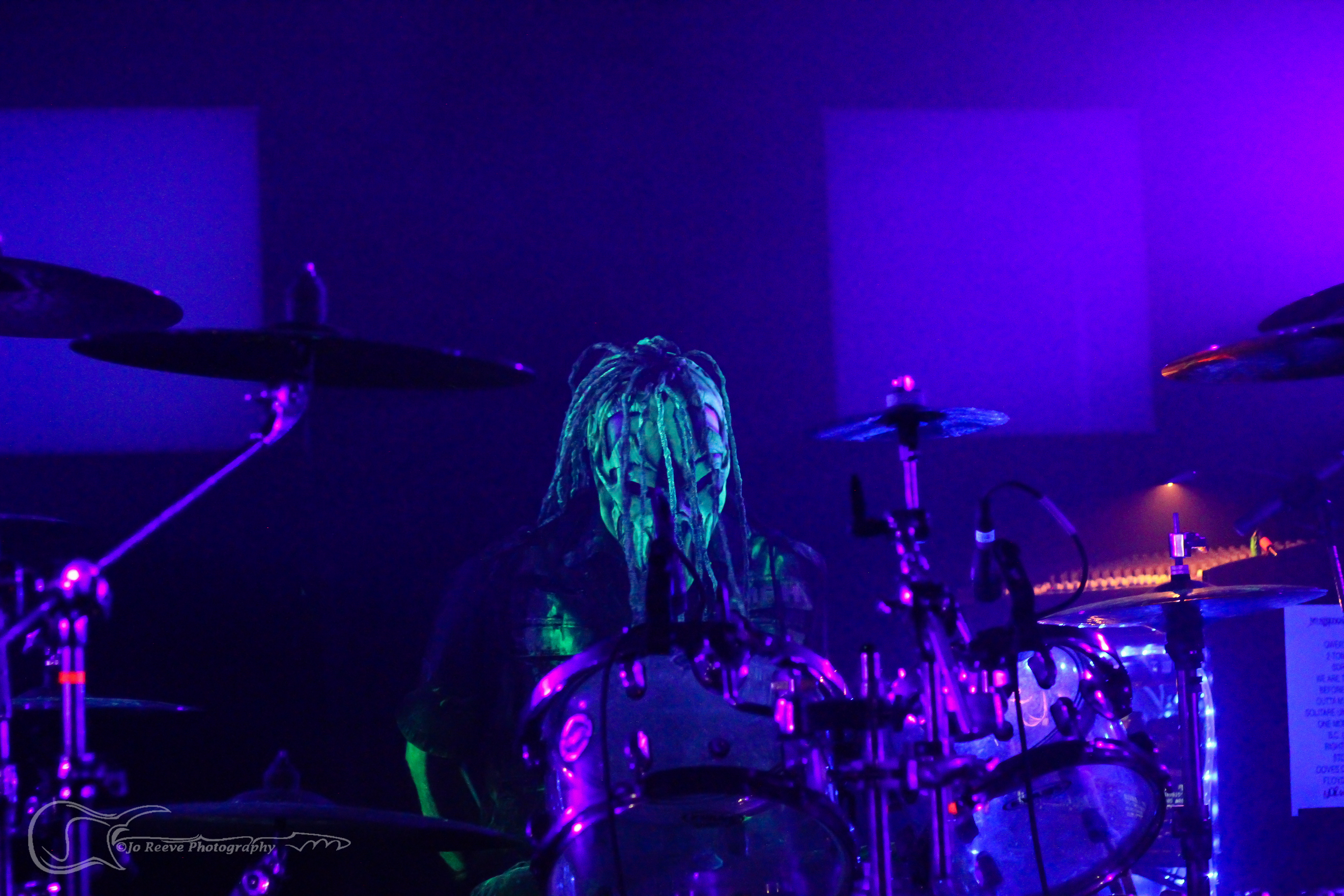 Steve "Skinny" Felton with Mushroomhead live in Norwich.